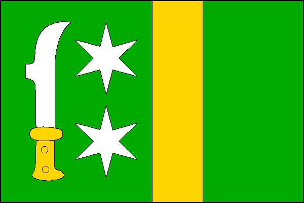 Municipal flag of Lužice village, Hodonín District, Czech Republic.